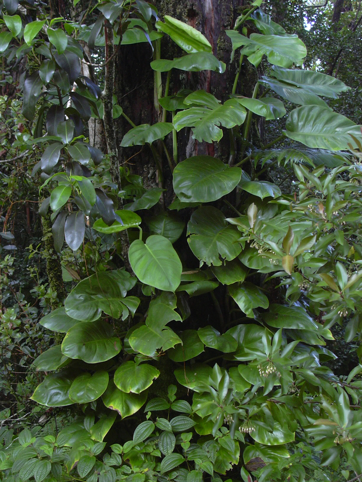 Epipremnum aureum (habit). Location: Maui, Kopiliula